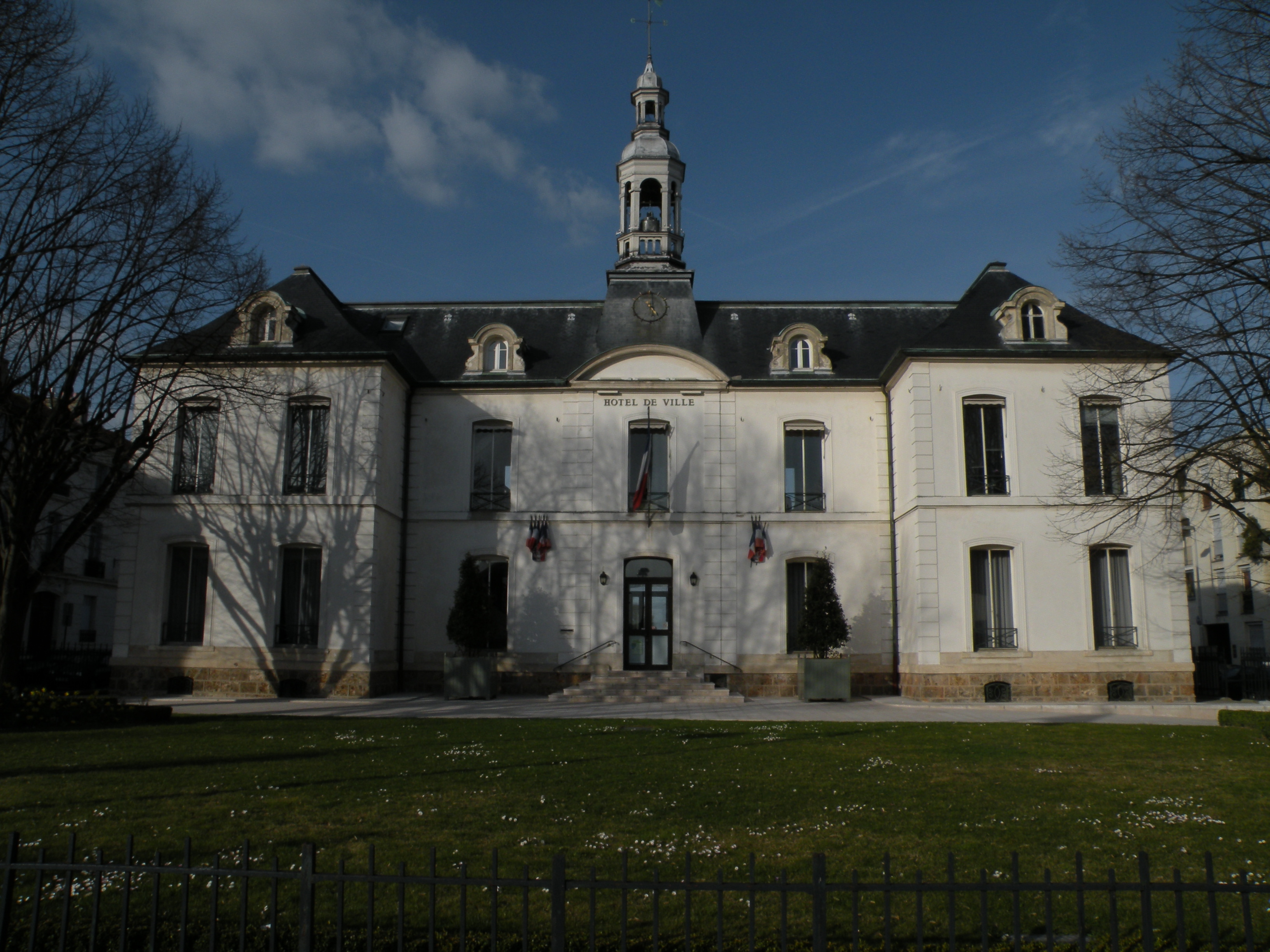 Town hall of Chatou